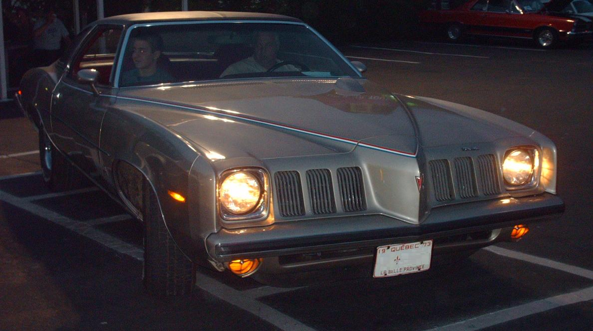 1973 Pontiac Grand Am photographed in Montreal, Quebec, Canada at Gibeau Orange Julep.